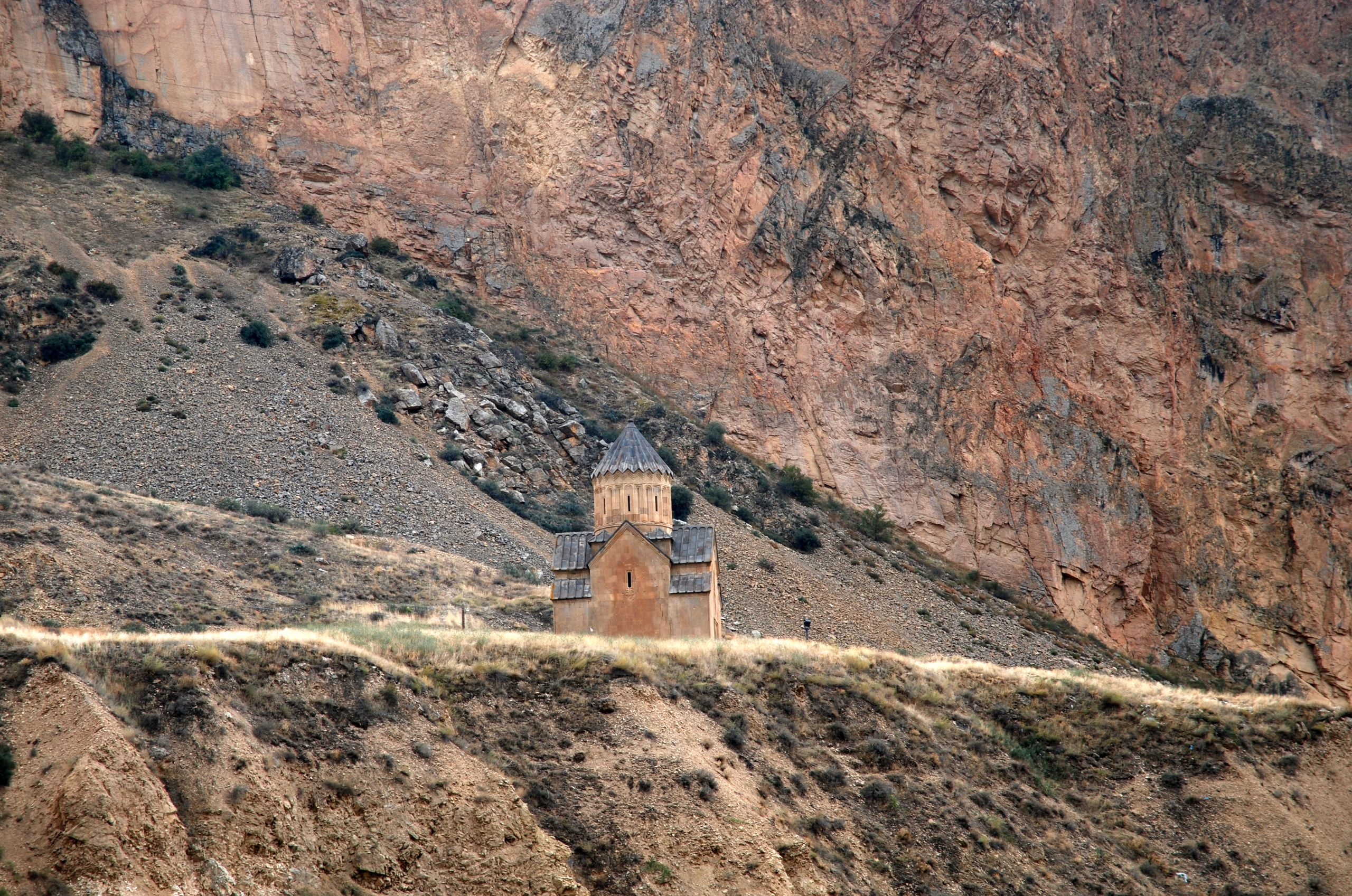 Areni church from north